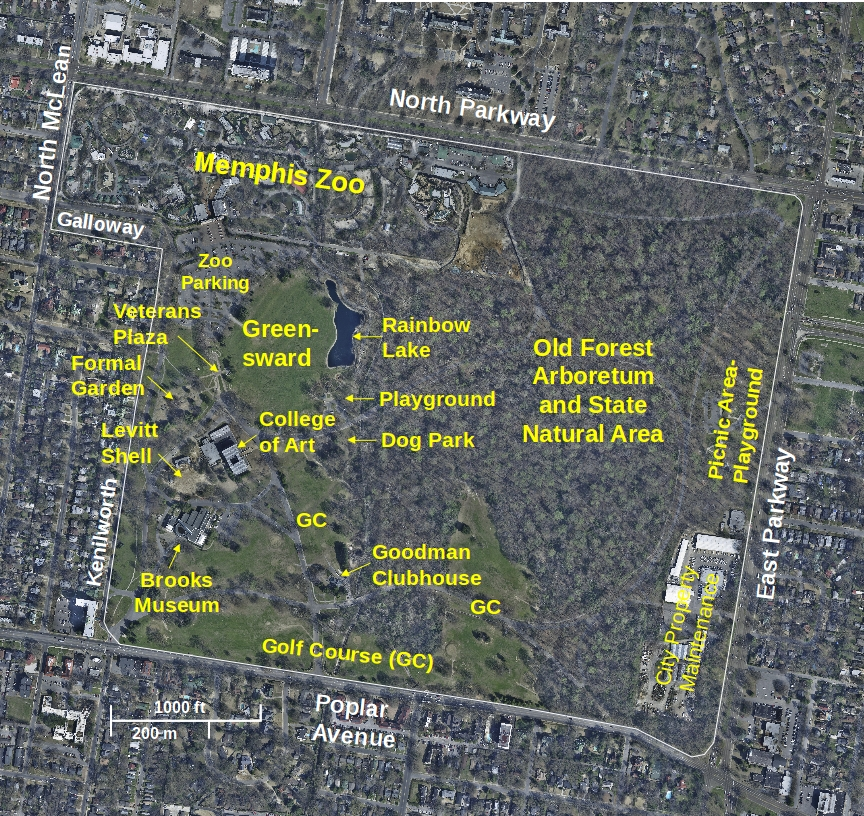 Bird's-eye view of the major features of Overton Park. Labels added using LibreOffice Draw by the author. Aerial imagery from data download from USGS The National Map As stated on their web site “Map services and data downloaded from The National Map are in the public domain. There are no restrictions, however we request that the following acknowledgment statement of the originating agency be included in products and data derived from our map services when citing, copying, or reprinting: "Map services and data available from U.S. Geological Survey, National Geospatial Program." Please go to for further information and details regarding the USGS Visual Identity System.”